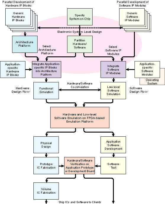 from (File:SoCDesignFlow.gif); original uploader User:PeterJohnBishop